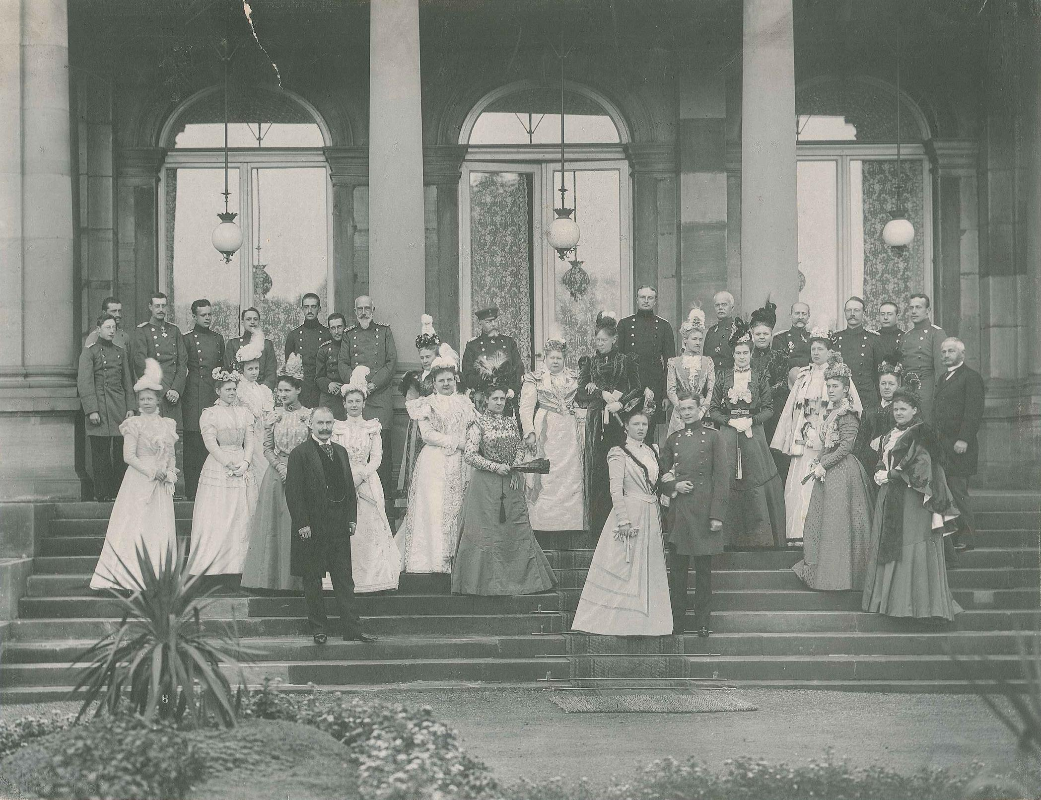 The Wuerttemberg Royal family and guests at the wedding of Princess Pauline of Wuerttemberg and the Hereditary Prince of Wied, Stuttgart, October 1898